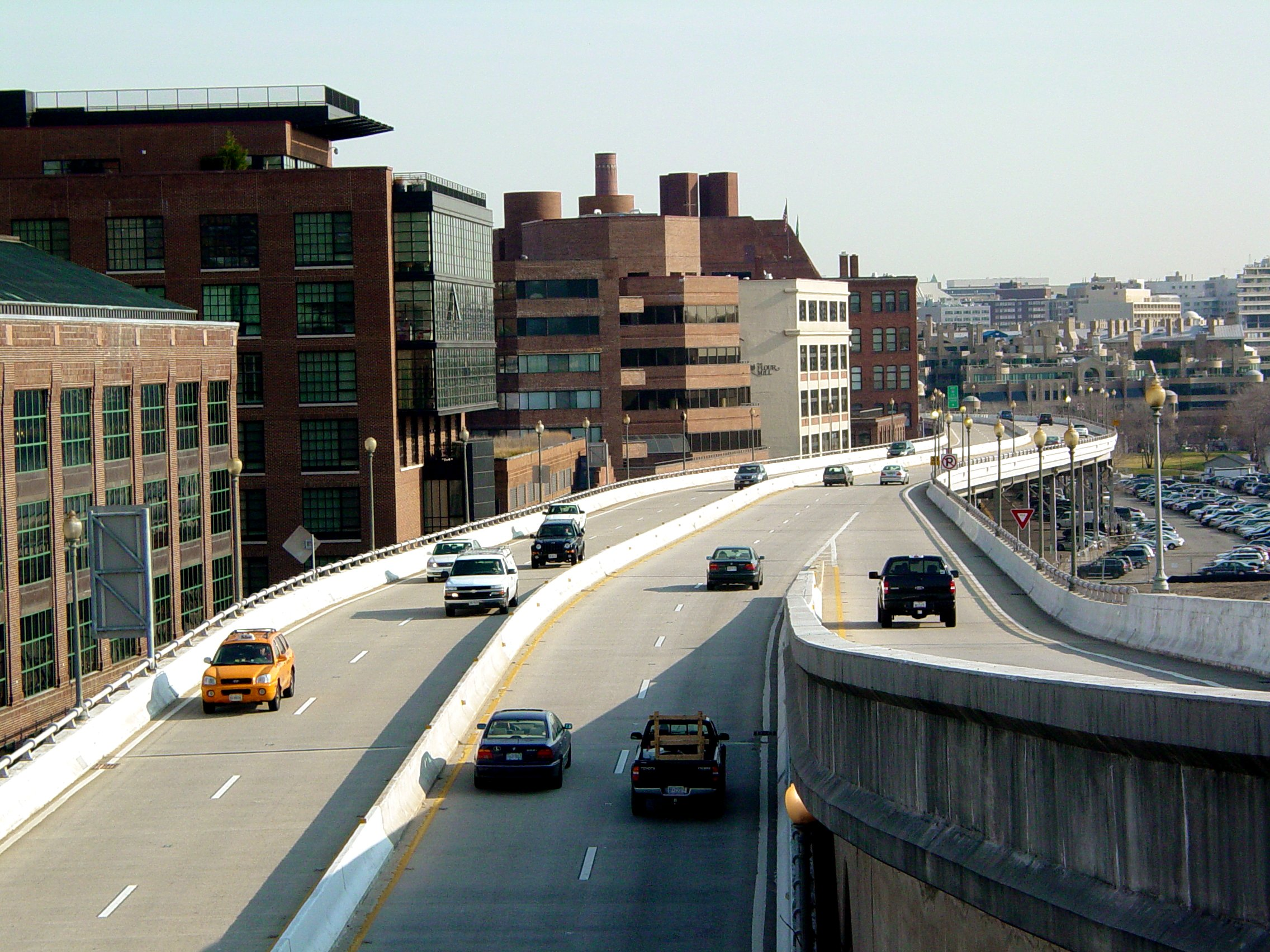 The Whitehurst Freeway, an elevated highway which runs along the Georgetown waterfront in Washington DC, seen here from the Key Bridge.